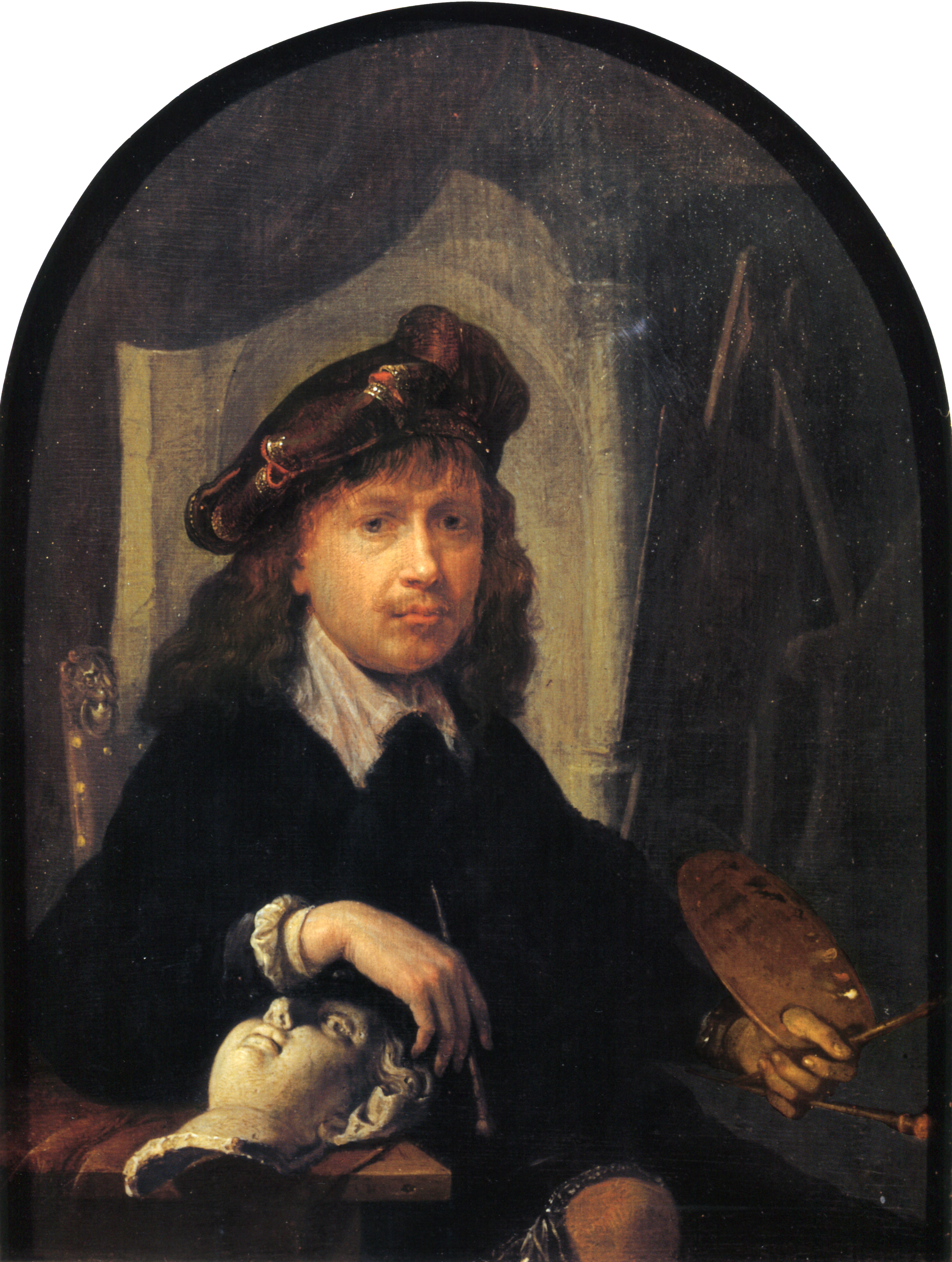 Self-portrait. Oil on panel, 185 x 140 mm (7 1/8 x 5 1/2"). Cheltenham Art Gallery and Museum.